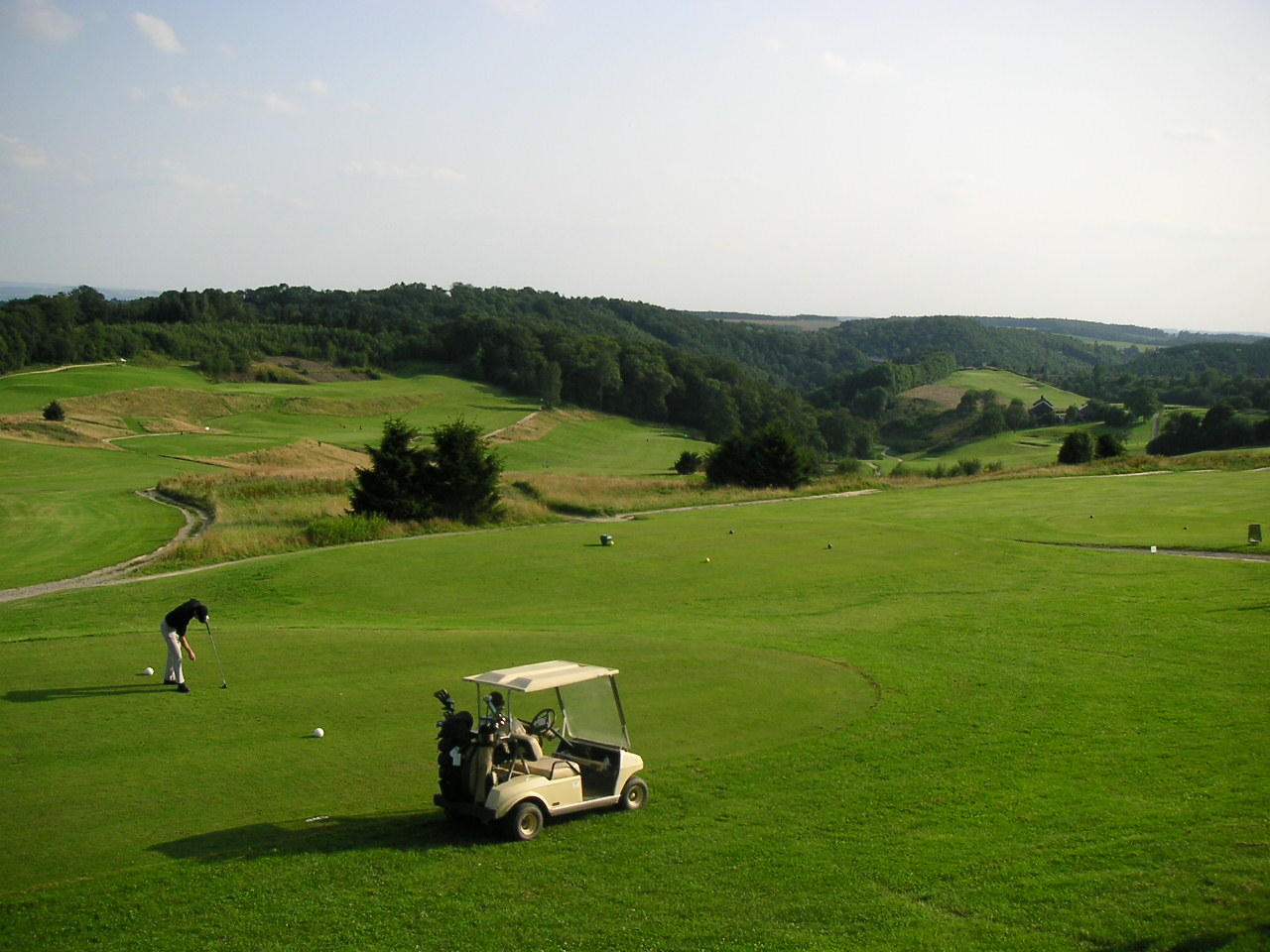 Méan - Five Nations Golf Club - Tee hole no 10